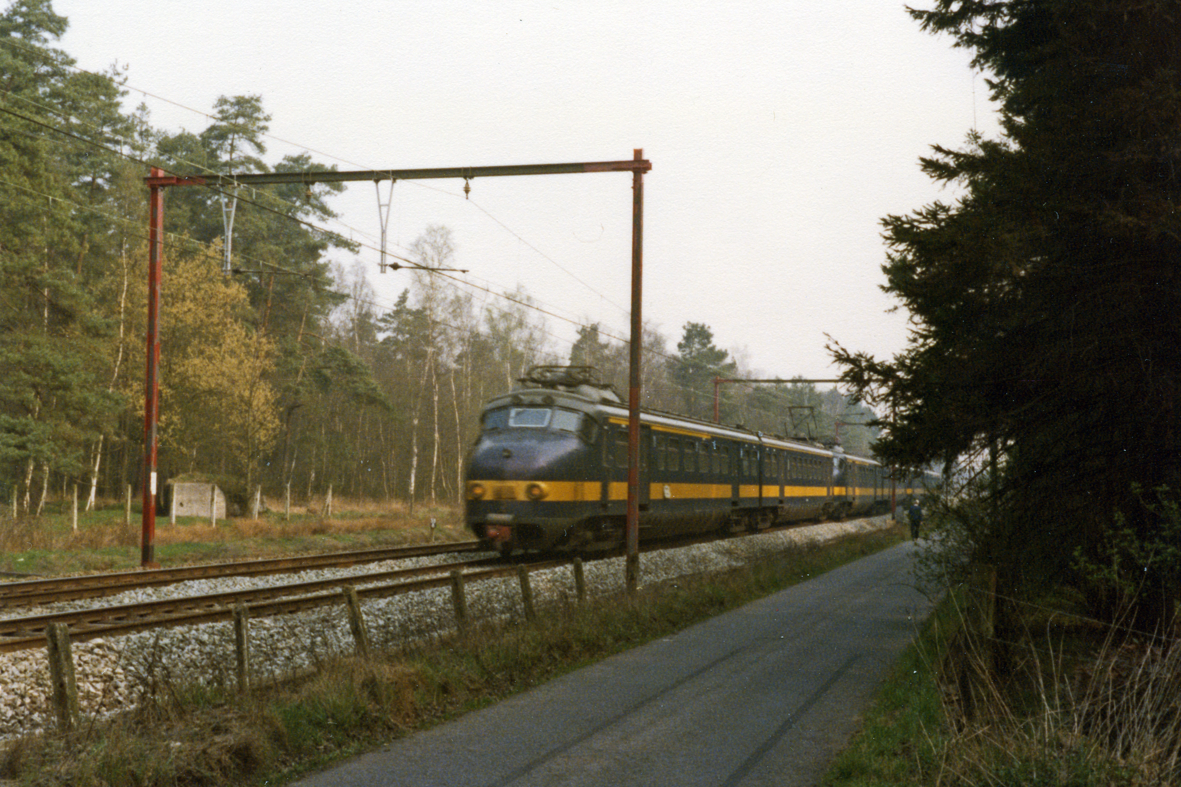 Three Benelux electric units between Kapellen and Kapellenbos in Belgium on line 12. The sideroad is limited traffic and no through road for cars. However it is fully used as a bike route.